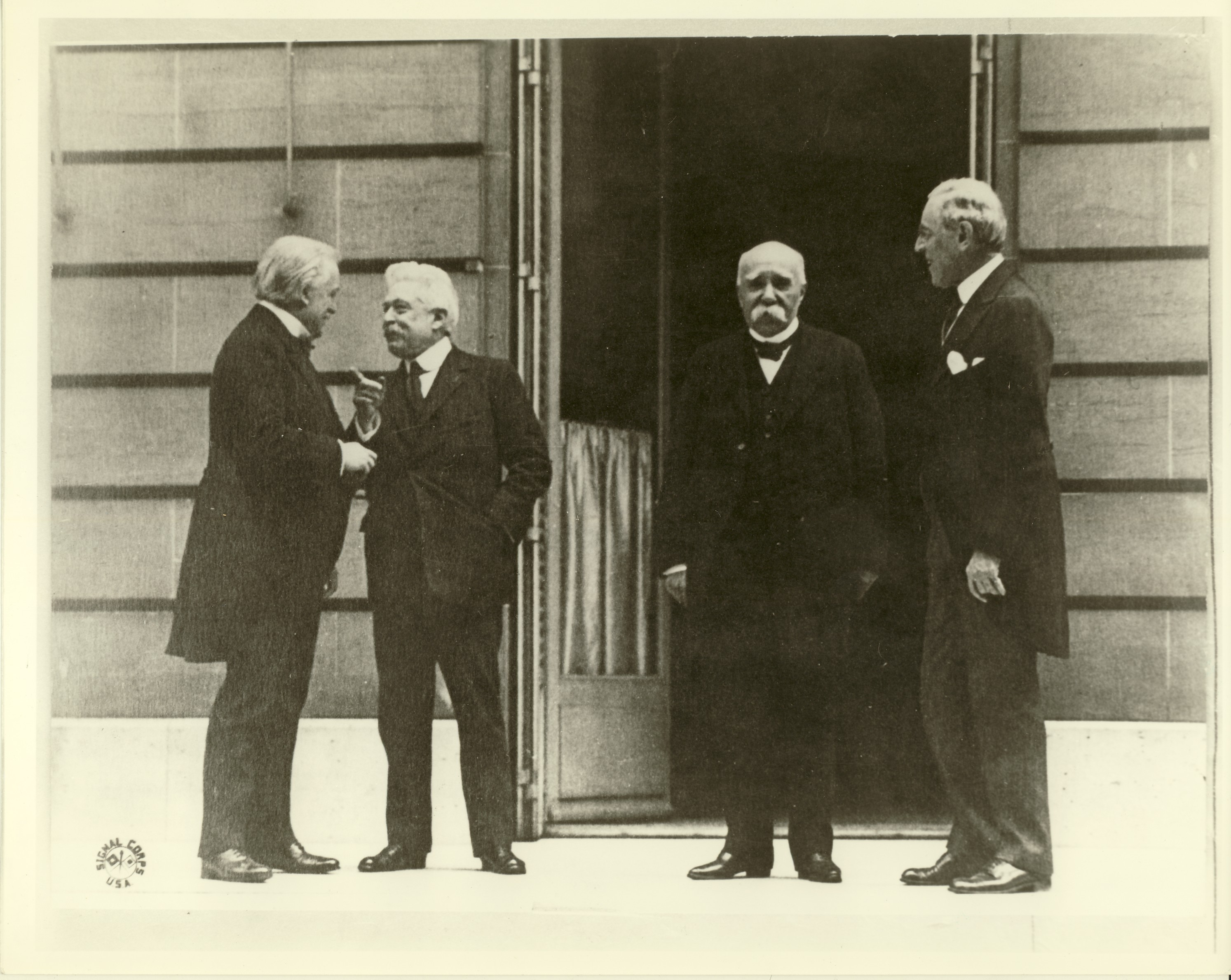 Local Accession Number: 1000 Description: The Council of Four at the Paris Peace Conference. Left to right: Lloyd George of Great Britain, Orlando of Italy, Clemenceau of France, and President Wilson. Photographer: U.S. Signal Corps Source: Unknown Size: 8x10, 6.5x9 Medium: Print, Black and White Date: 1919